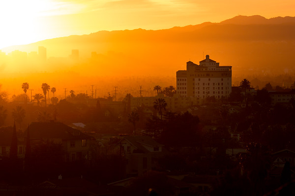 The Los Angels Dream Center, 2016